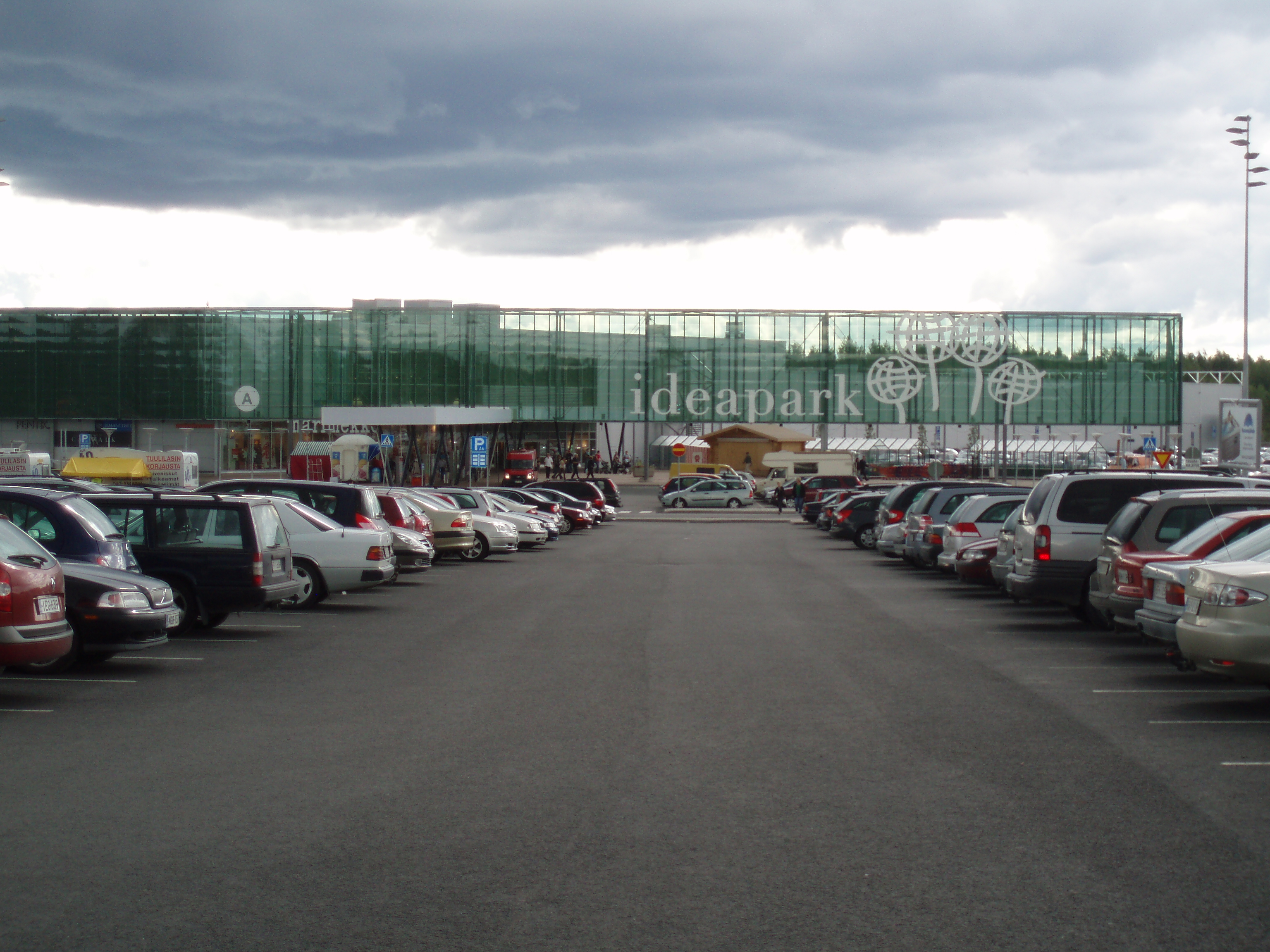 Ideapark in Lempäälä, Finland is one of the largest malls in Finland.